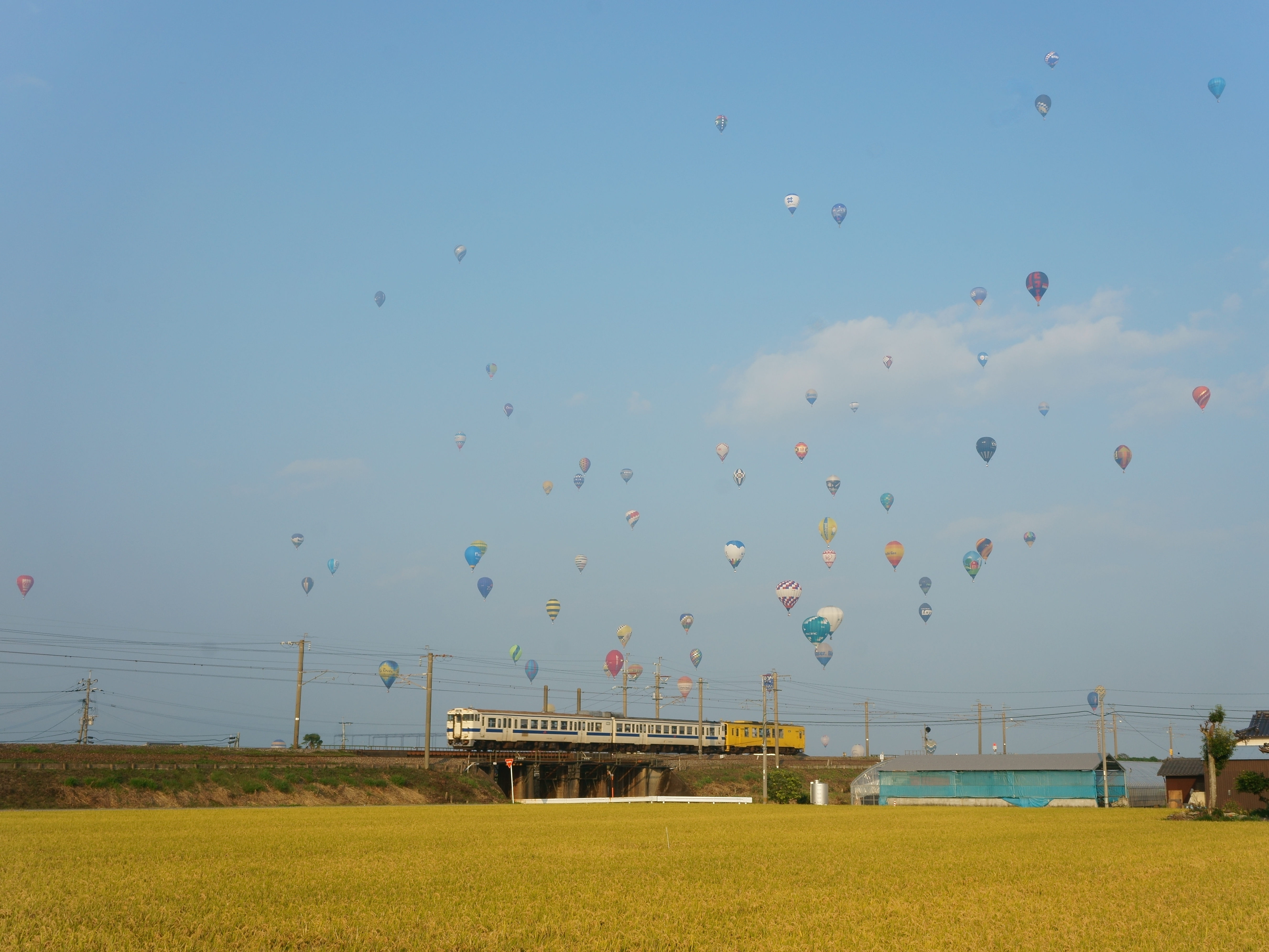 Flying hot air balloons and a JR-Nagasaki Line train, those ware watched in Kanada, Mikazuki, Ogi city.